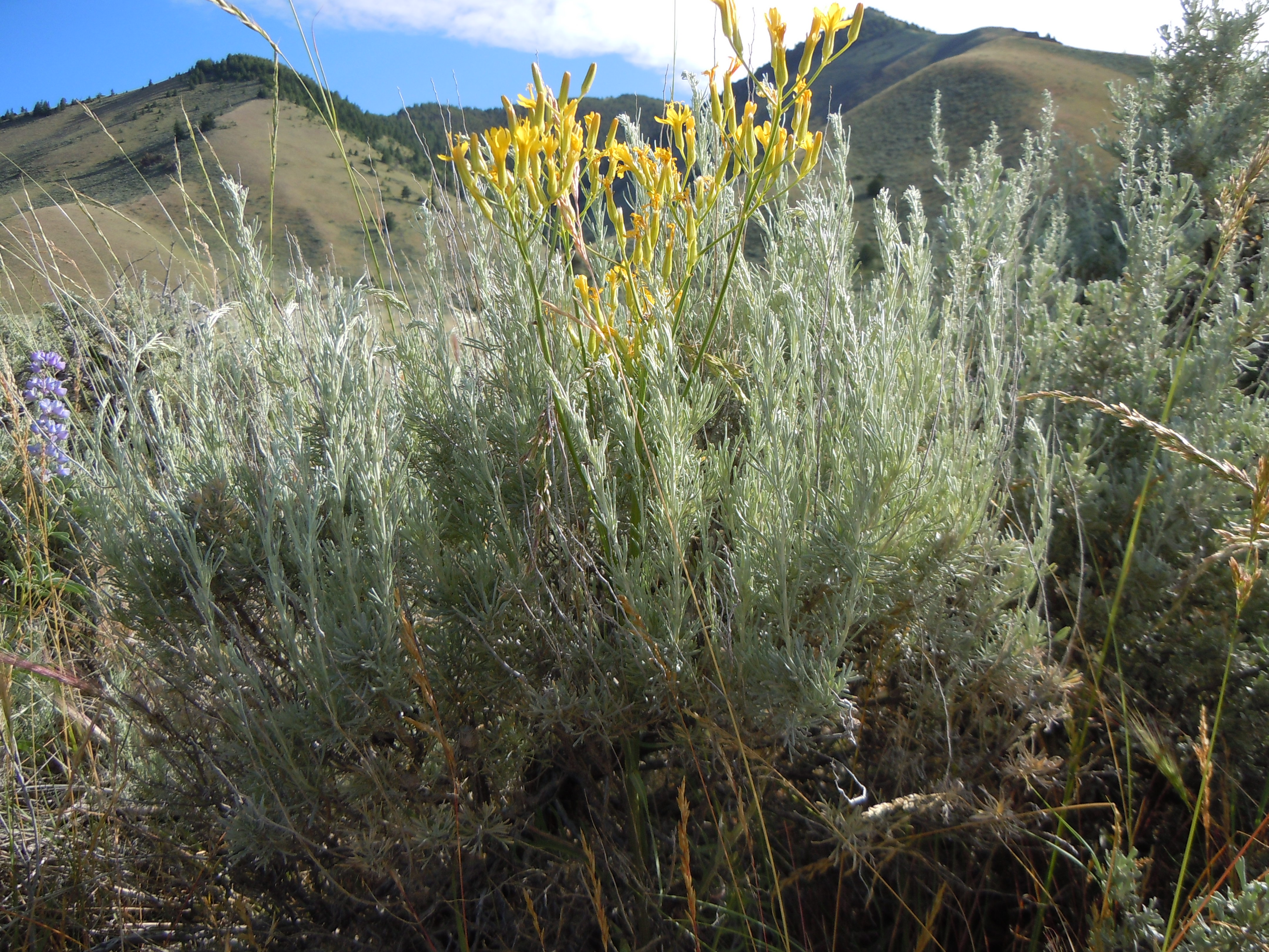 Threetip sagebrush is sporadically present at mid elevations, such as along the old stage road in the vicinity of Webb Springs.